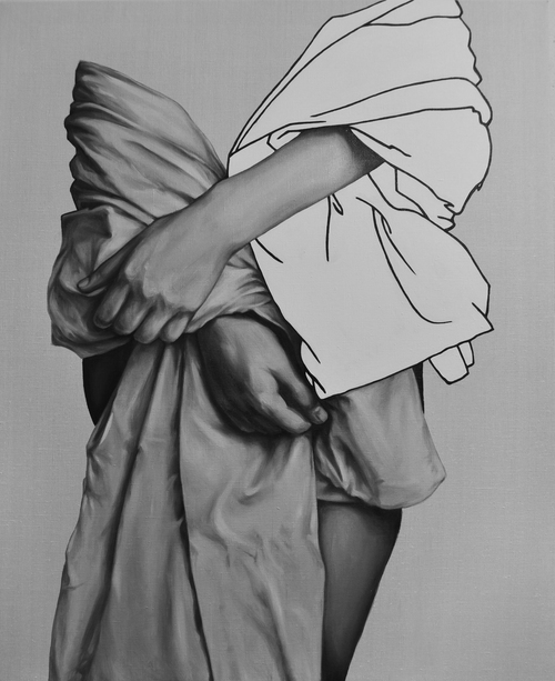 Nesheva Ulyana, 2013, Pigeon Lady, oil on canvas, 130 x 150 cm